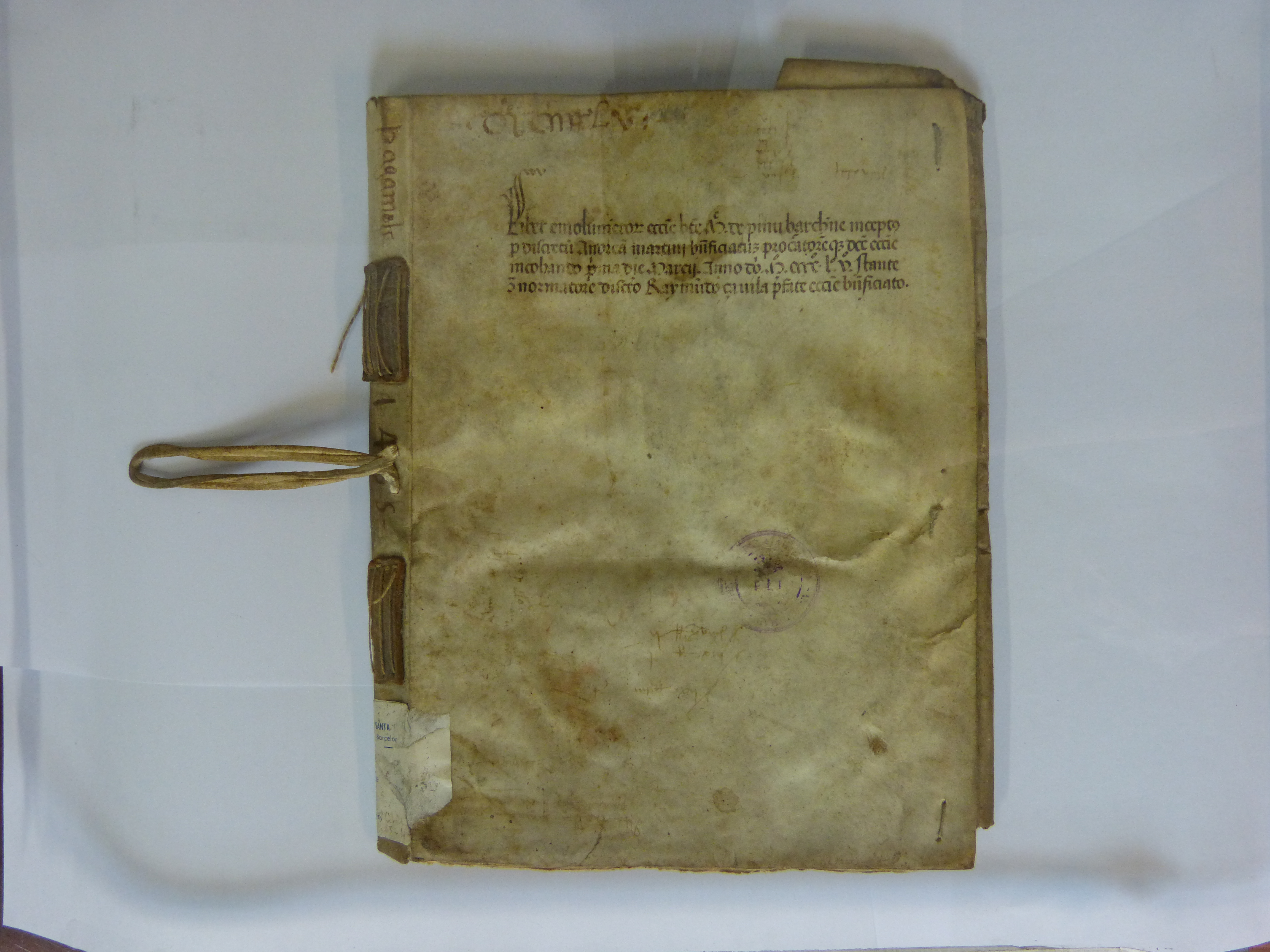 Death Register of 1455. APSMP